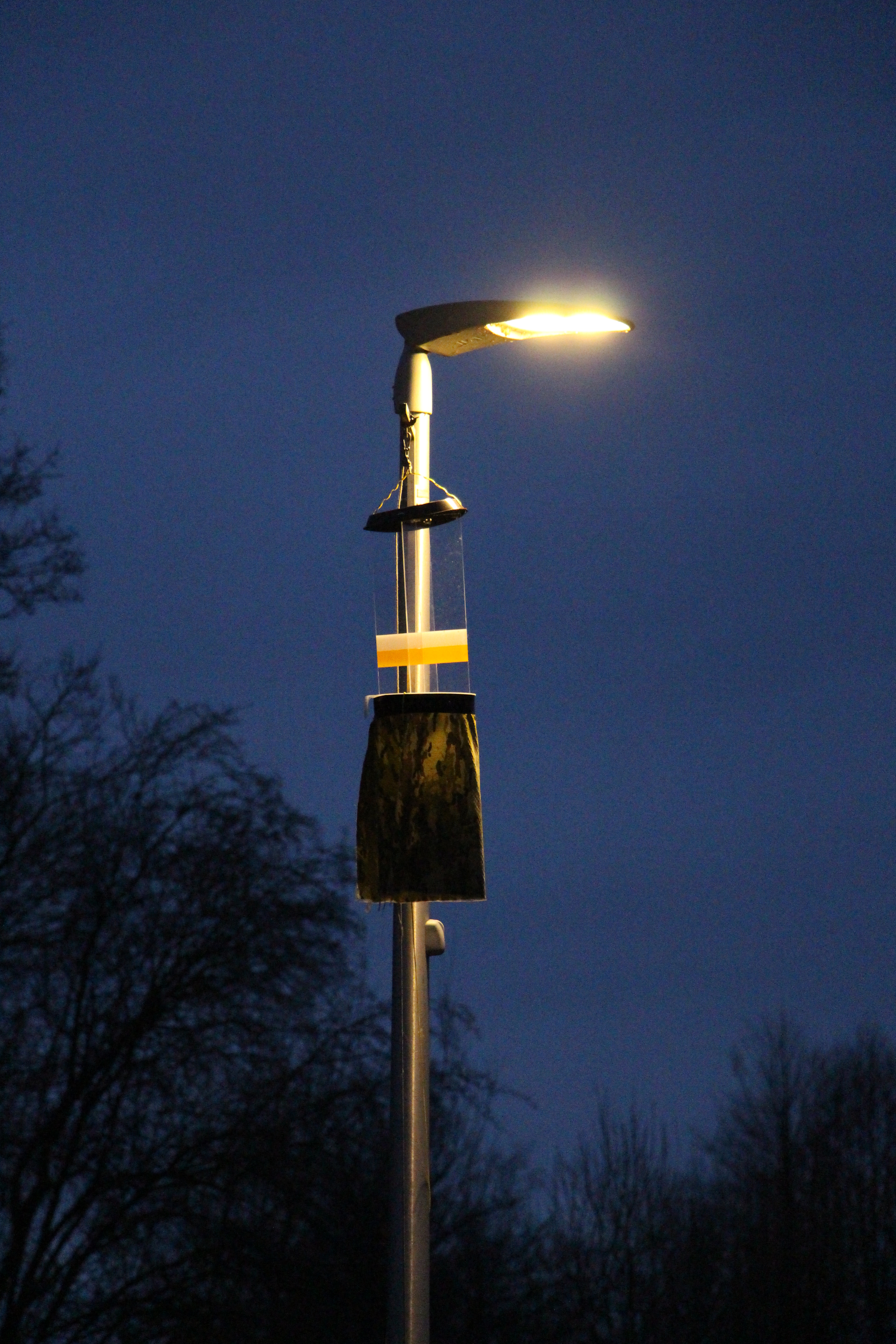 Flight Interception Trap for insects. The cloth at the lower part is a sight protection for a bottle with trapping fluid